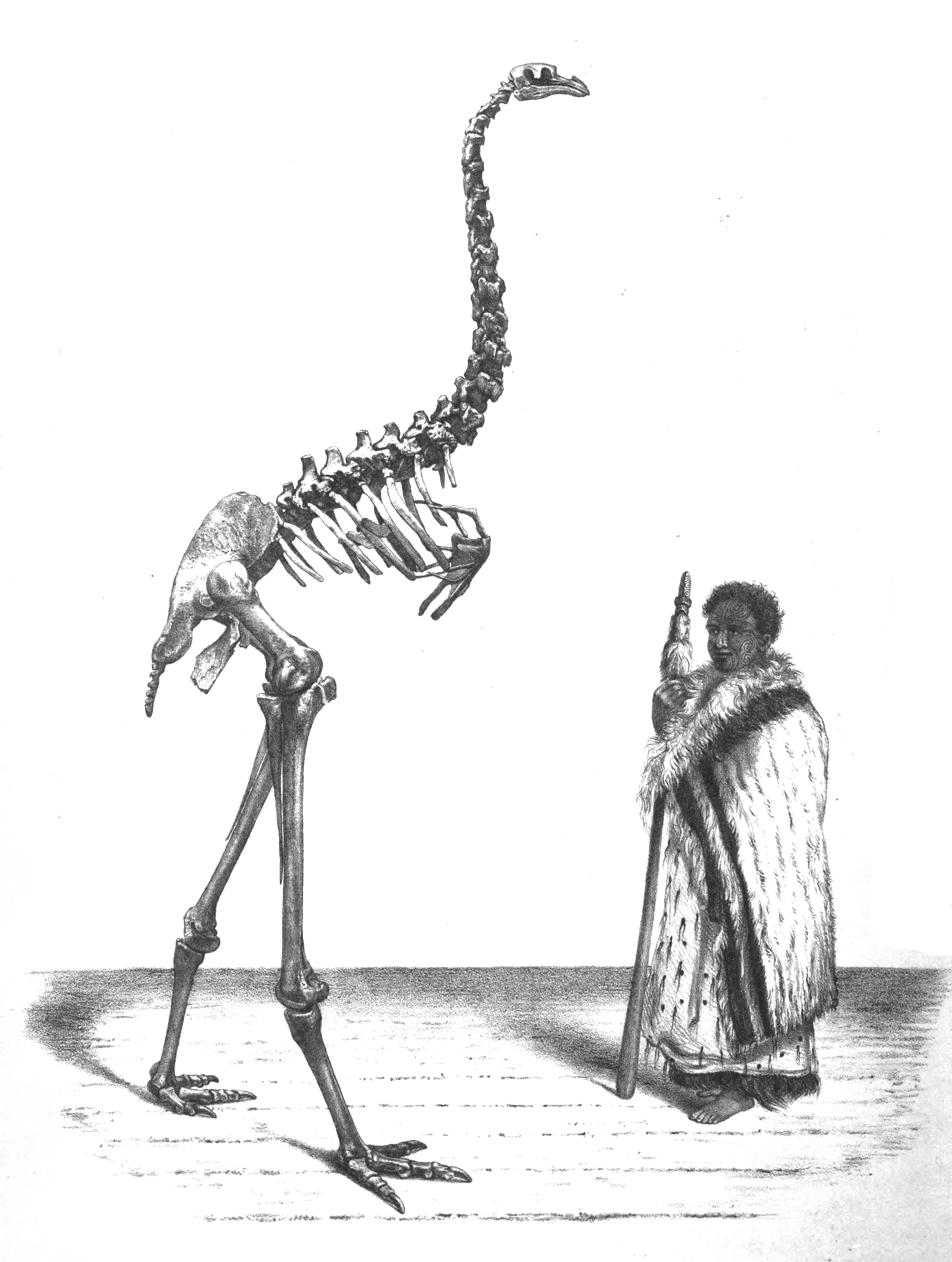 Dinornis, female.